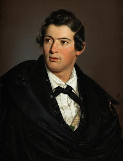 Bildnis eines jungen mannes in weissem hemd, schwarzer binde und schwarzem umhangortrait signiert und datiert 1840. Thought to be Josef Mayr, ancestor of Professor Siegfried Mayr (23 June 1929 - 29 December 2018)